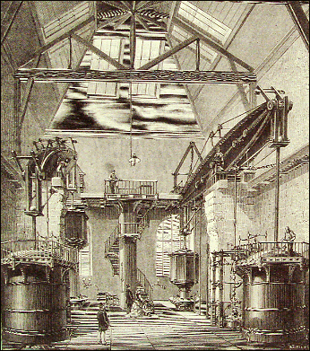 Marly Machine. The steem engine of Chaillot by 1880.